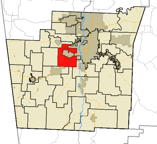 This is a map of Washington County, Arkansas which highlights the location of Center Township.